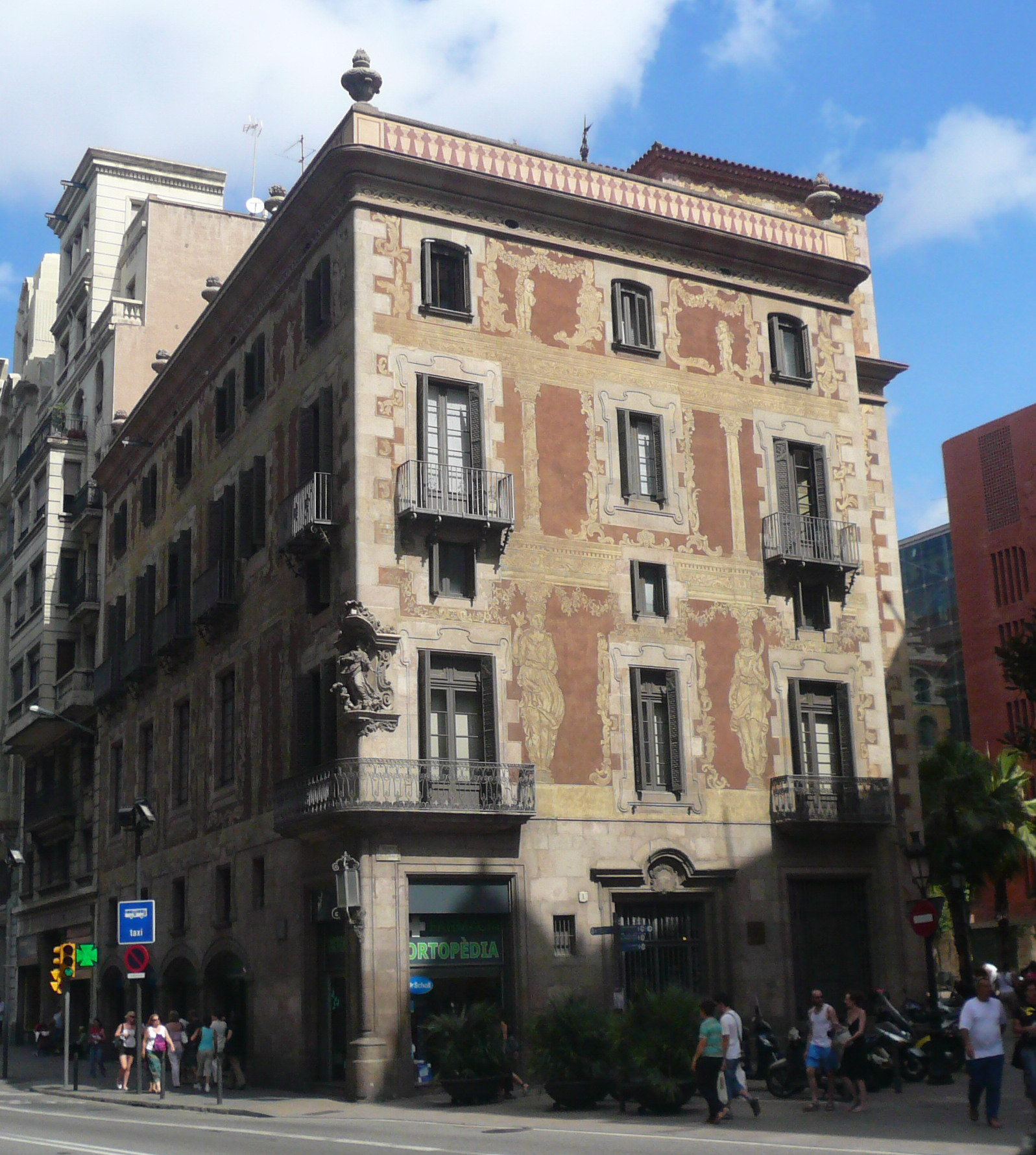 Casa del gremi dels velers, Barcelona.